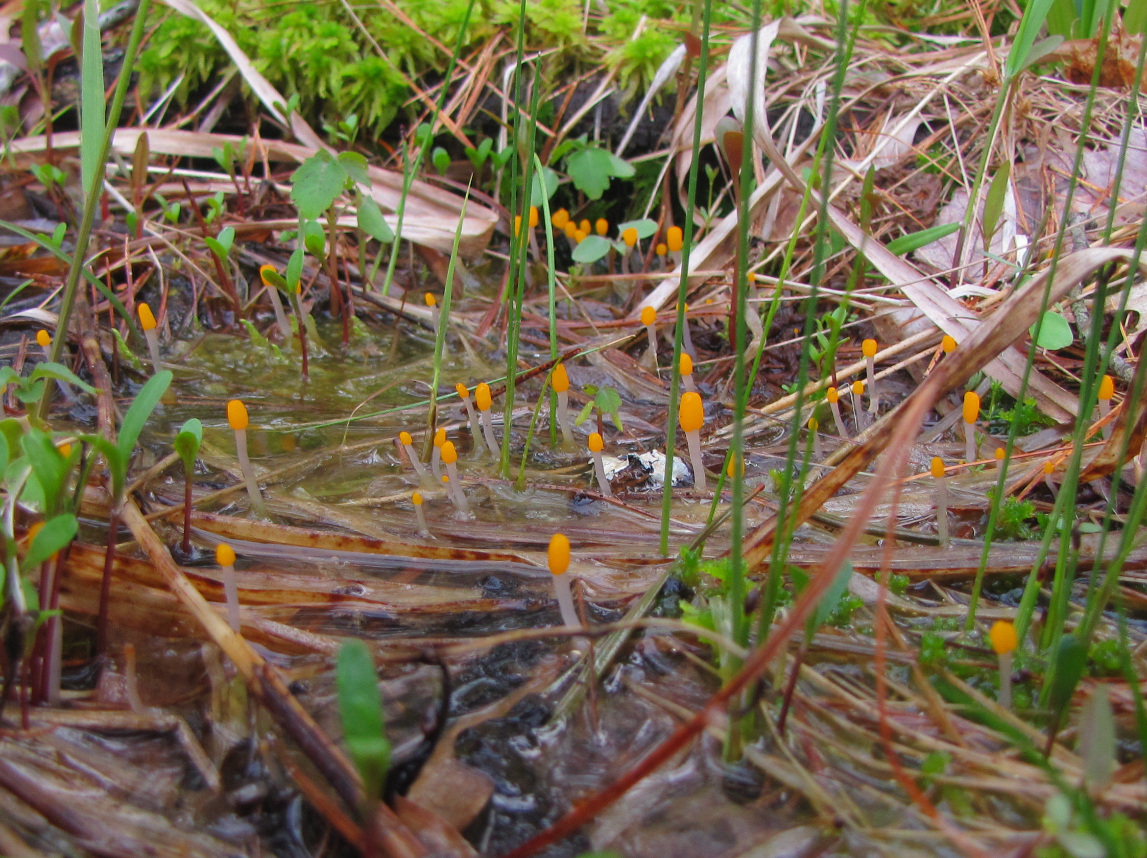 Mitrula paludosa Fr. Image location: Hampden Co., Massachusetts, USA Recognized by sight For more information about this, see the observation page at Mushroom Observer.